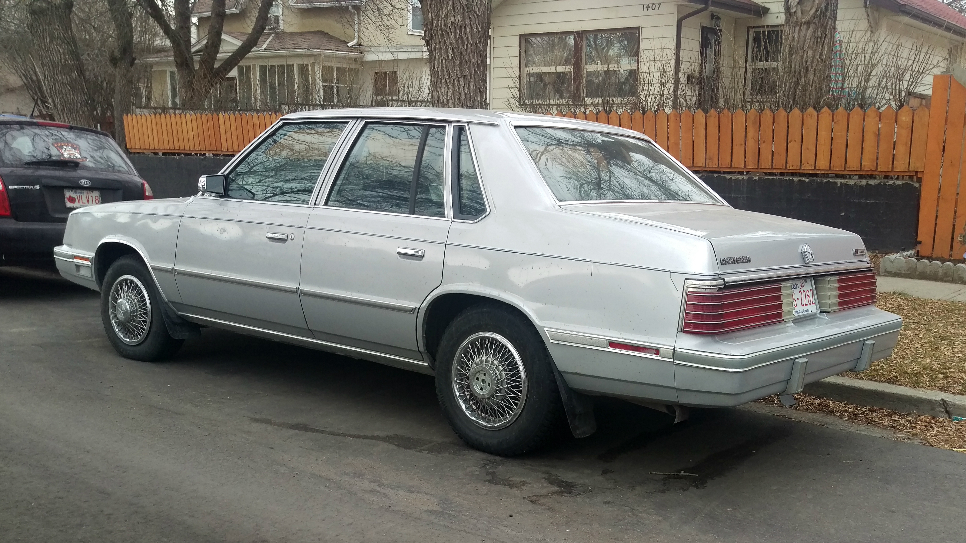 The Chrysler E-Class is a K-car variant just below the New Yorker in equipment and price. I believe this is an 1984 model with the revised tail lights but still retaining the stand up hood badge. One of 32,237 made for that year.